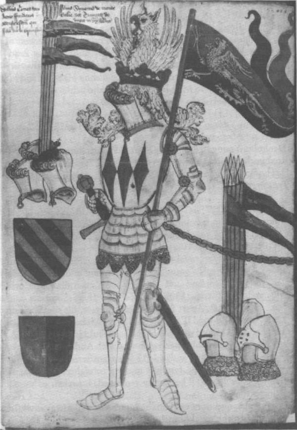 William Montagu, 1st Earl of Salisbury (1301-1344), detail from the Salisbury Roll, "Copy A" (c.1483-5). He displays the Montagu arms (modern) Argent, three fusils conjoined in fess gules on his breastplate, whilst his maternal arms of de Montfort (Bendy of eight or and azure)[1][2] are shown on a shield at left. He wears as crest: A griffin's head couped wings expanded or gorged with a collar argent charged with three lozenges gules (Fairbairn’s Crests of the Families of Great Britain and Ireland By James Fairbairn, p.337[1])